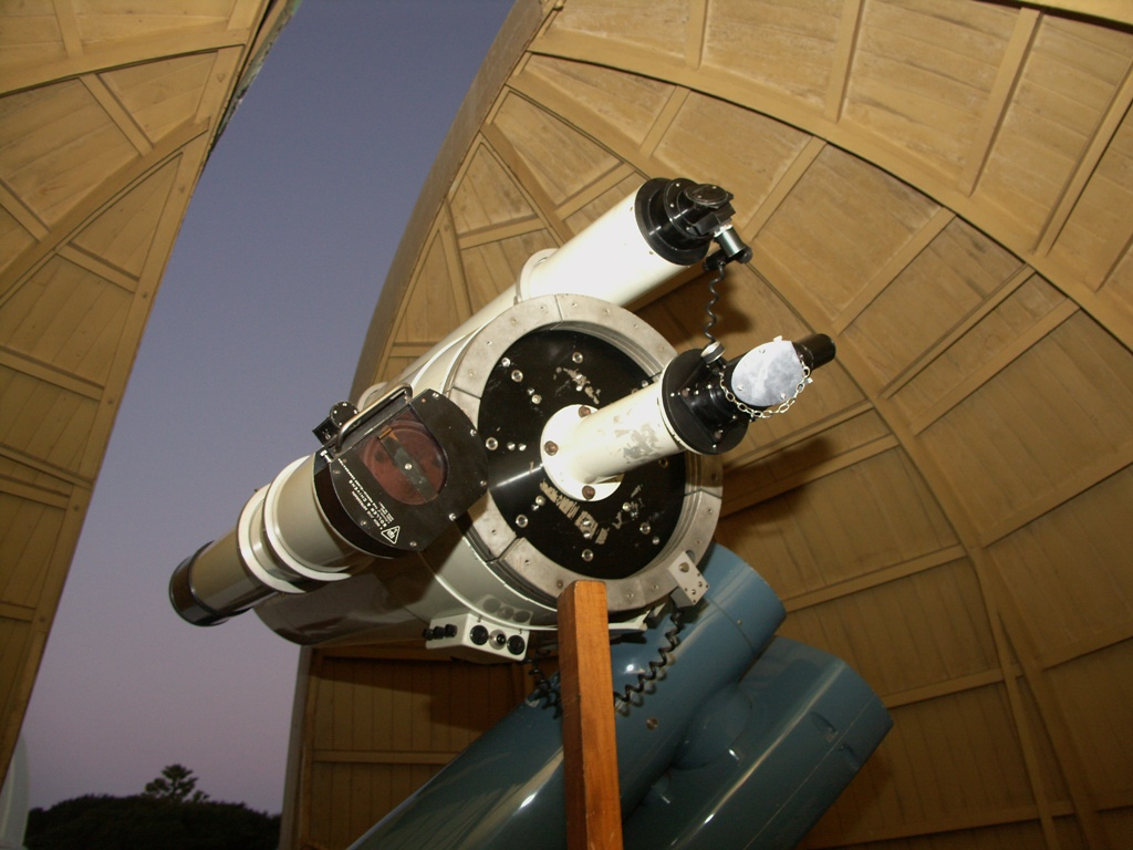 Photo of the Ruth Crisp telescope at Carter Observatory, Wellington, New Zealand. Taken by Paul Moss specifically for the Ruth Crisp article in Wikipedia.